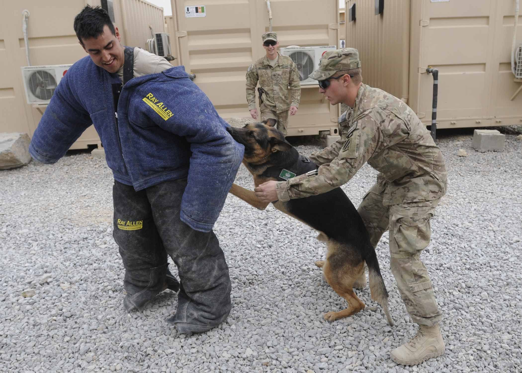 Spc. Randolph Schleben, a native of Palmdale, Calif., assigned to C. Company, 4th Battalion, 17th Infantry Regiment, 1st Brigade Combat Team, 1st Armored Division, Fort Bliss, Texas, and a member of the Kandahar Provincial Reconstruction Team, is attacked by Block, a Patrol Explosive Detection Dog, during a training exercise at Camp Nathan Smith, Afghanistan, Jan. 30. The KPRT works in partnership with the Kandahar government to facilitate improvement and sustainability for the province.